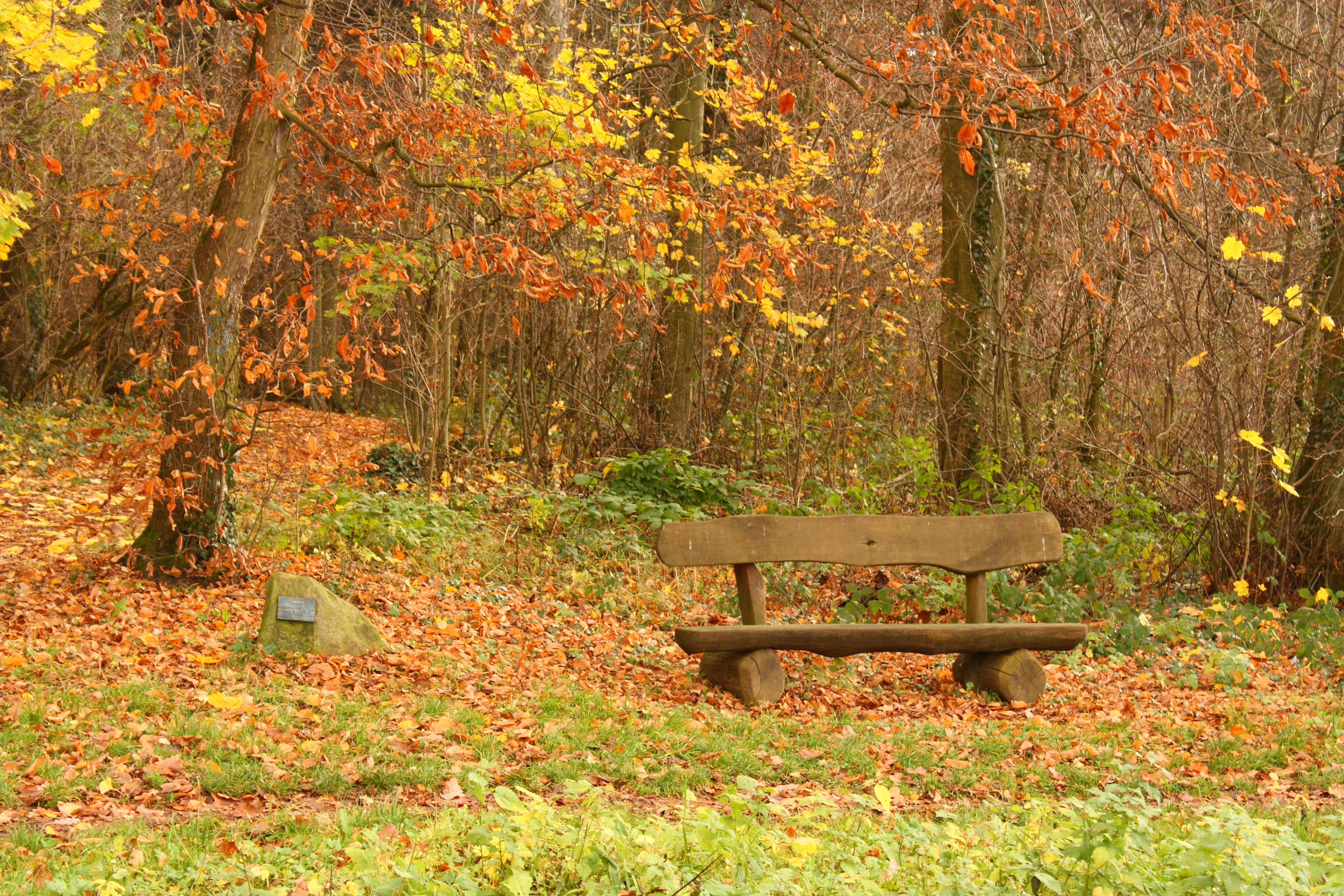 A wooden bench in the forest near Heidelberg, Germany